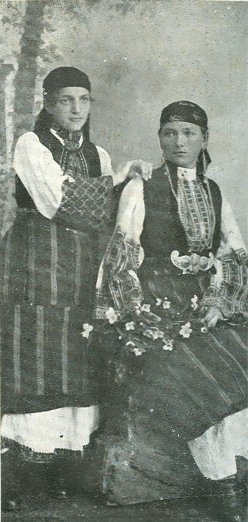 Women from Kastoria (Kostur) in national costumes, beginning of XX c.